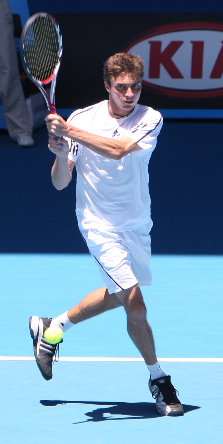 Gilles Simon at 2009 Australian Open, Melbourne, Australia.